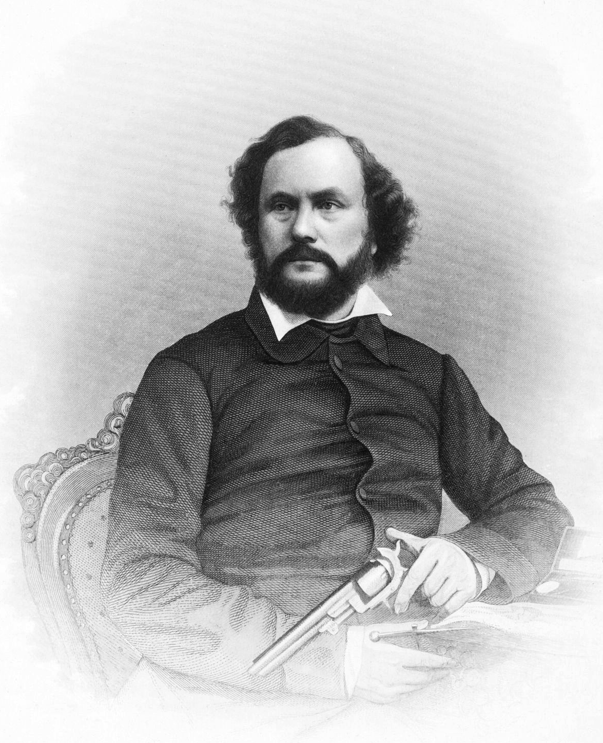 Steel Engraving of Samuel Colt with a Colt 1851 Navy Revolver. Based on a lost daguerreotype by Philipp Graff (1814-1851) taken between 1847 and 1851.